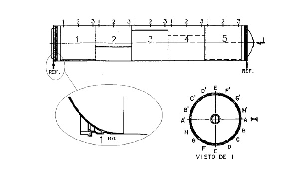 Brazilian S40 rocket motor section scheme.